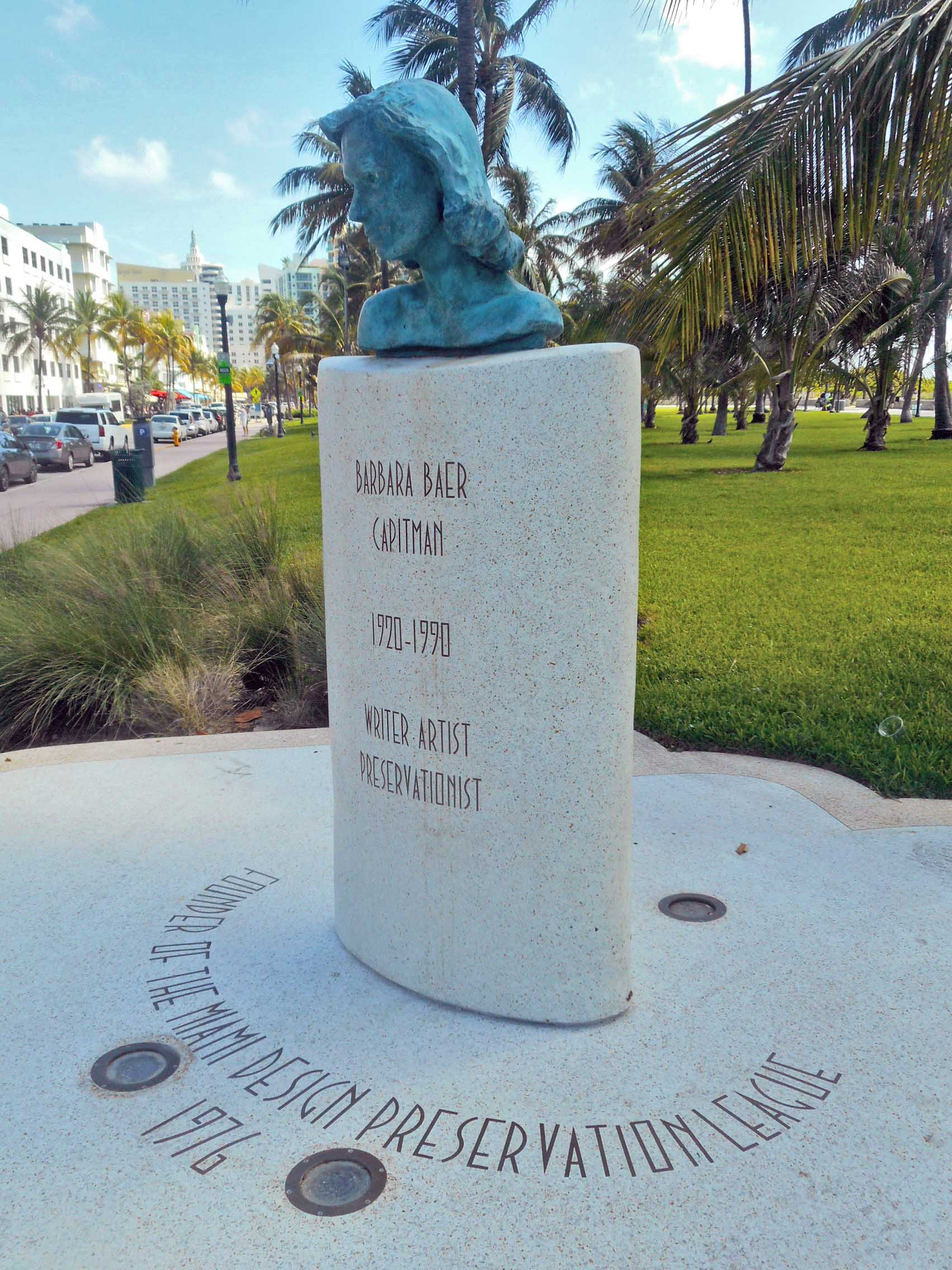 Barbara Baer Capitman Monument